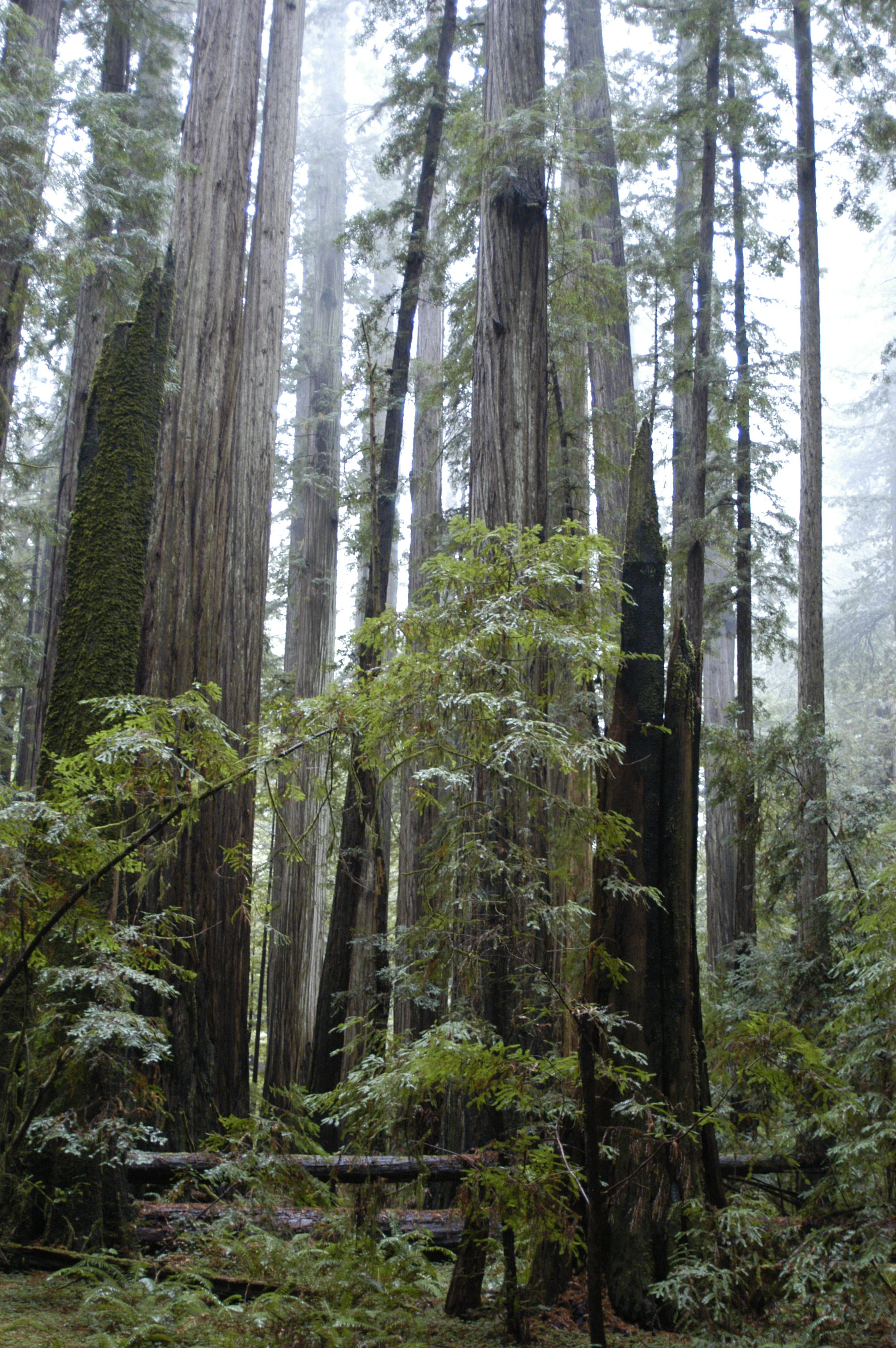 Redwood trees in Rockefeller Forest, part of Humboldt Redwoods State Park.